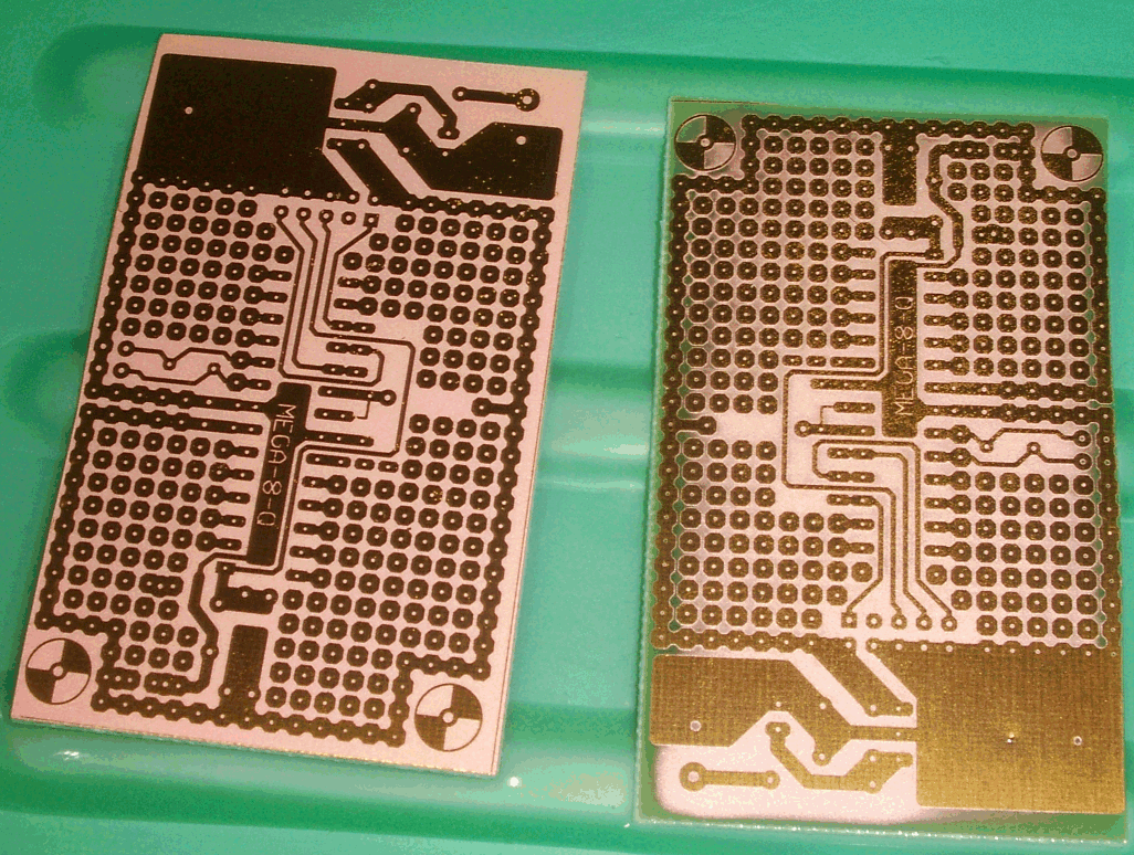 Picture of two PCB's in etchant solution one partial etched one new